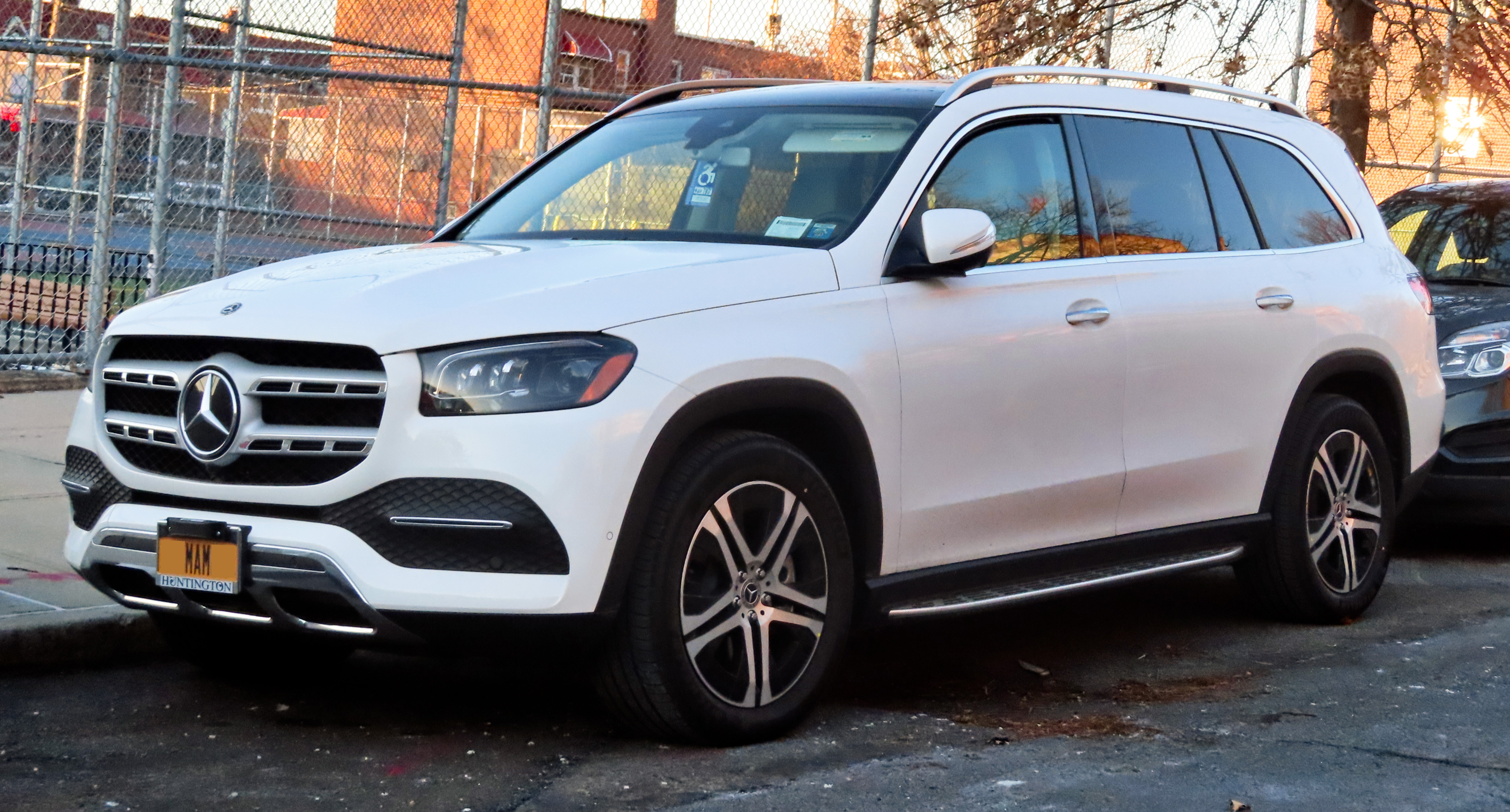 A 2020 Mercedes-Benz GLS 450 photographed in Woodside, Queens, New York, USA